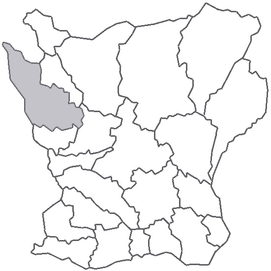 Map describing the location of Luggude Hundred in the province of Skåne, Sweden.